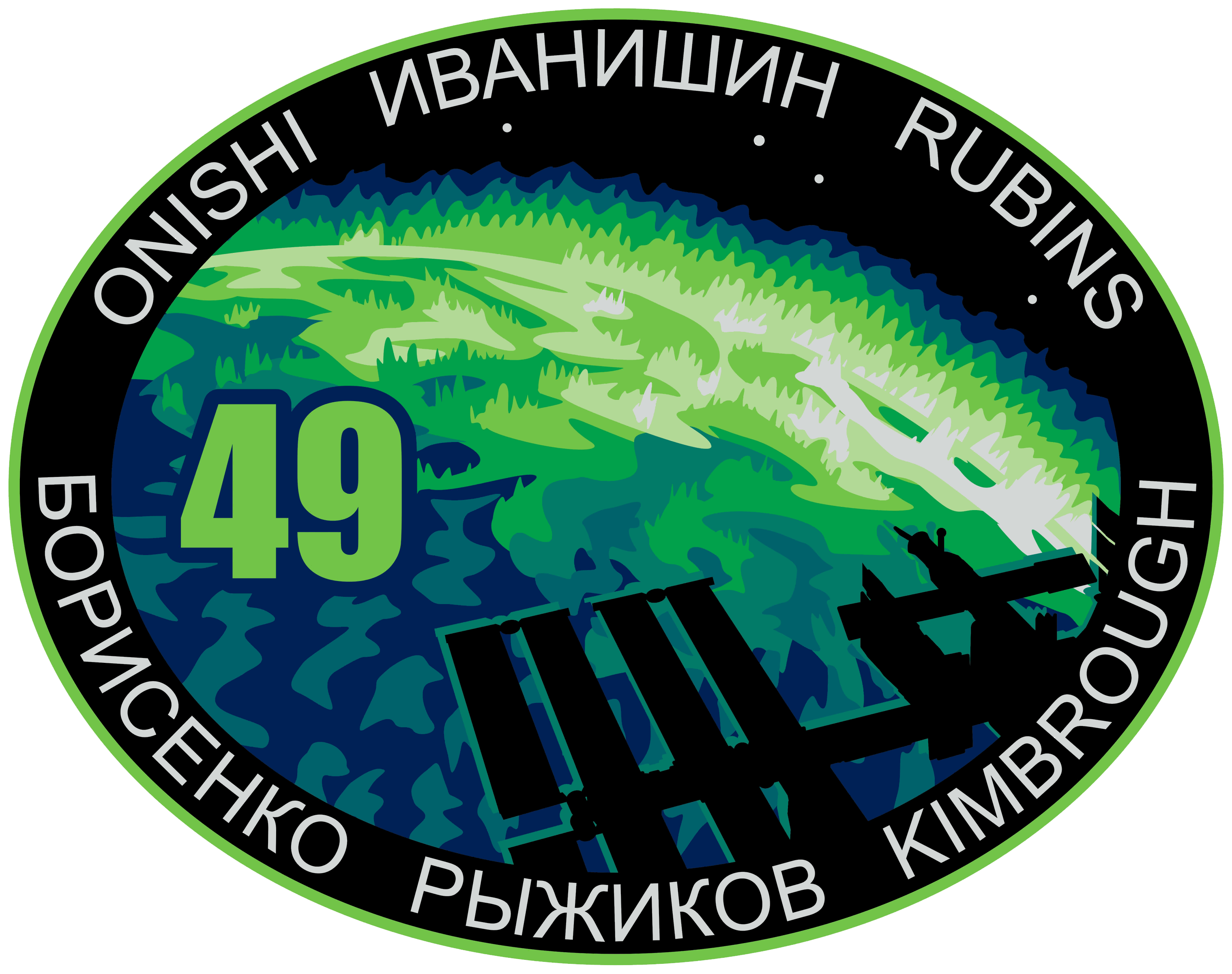 The Expedition 49 crew insignia